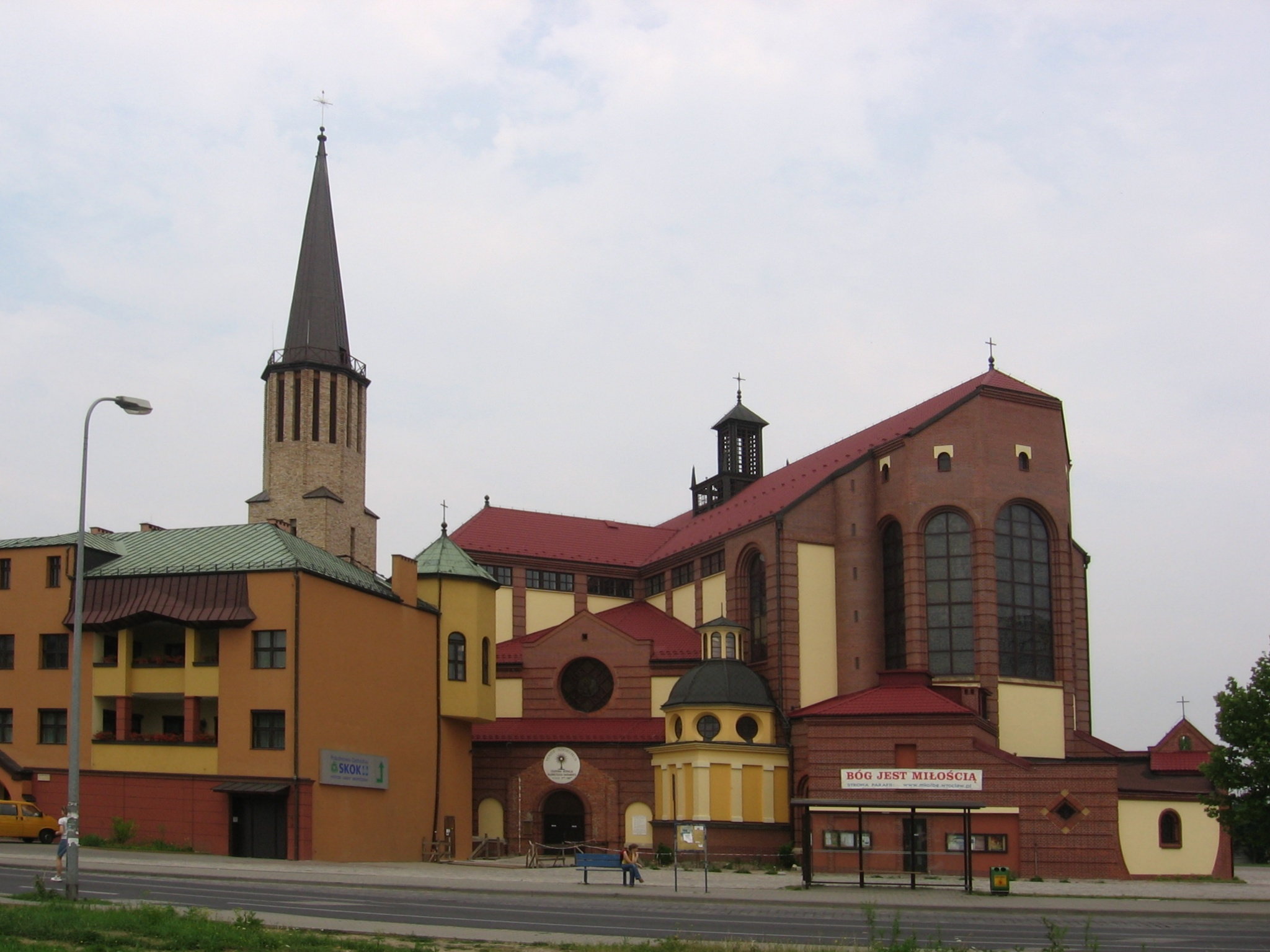 The church of Maximilian Kolbe, Gądów Mały, Wrocław, Poland locaded on the corner of Horbaczewskiego street and Na Ostatnim Groszu[1] street, view from Horbaczewskiego st.